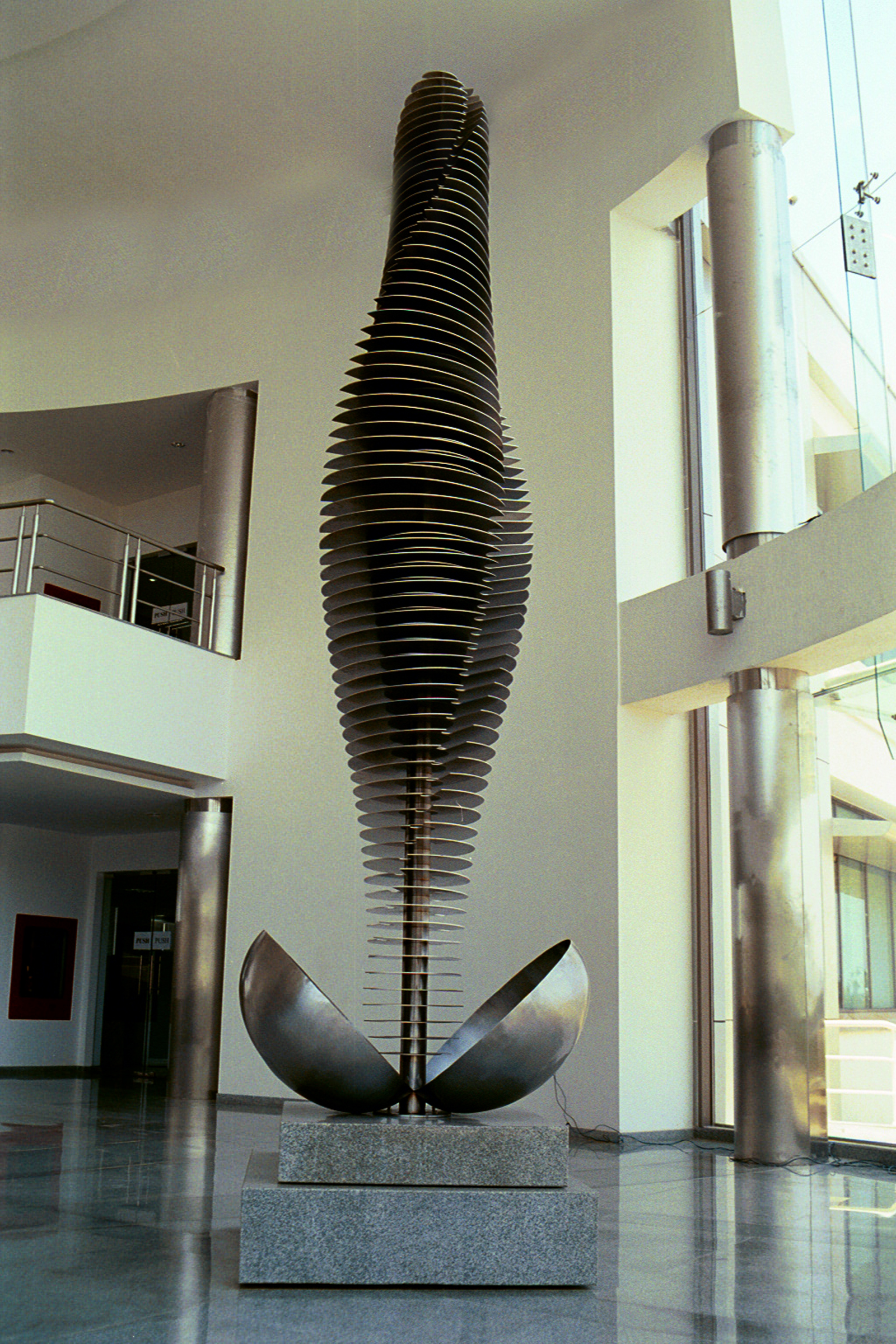 It depicts a sculpture made by Balan Nambiar, 620x90x60 cm, on the premises of Timken Engineering & Research India Private Limited, Electronic City, Phase 1, Hosur Road, Bangalore, India. Photo by Balan Nambiar, 2004.